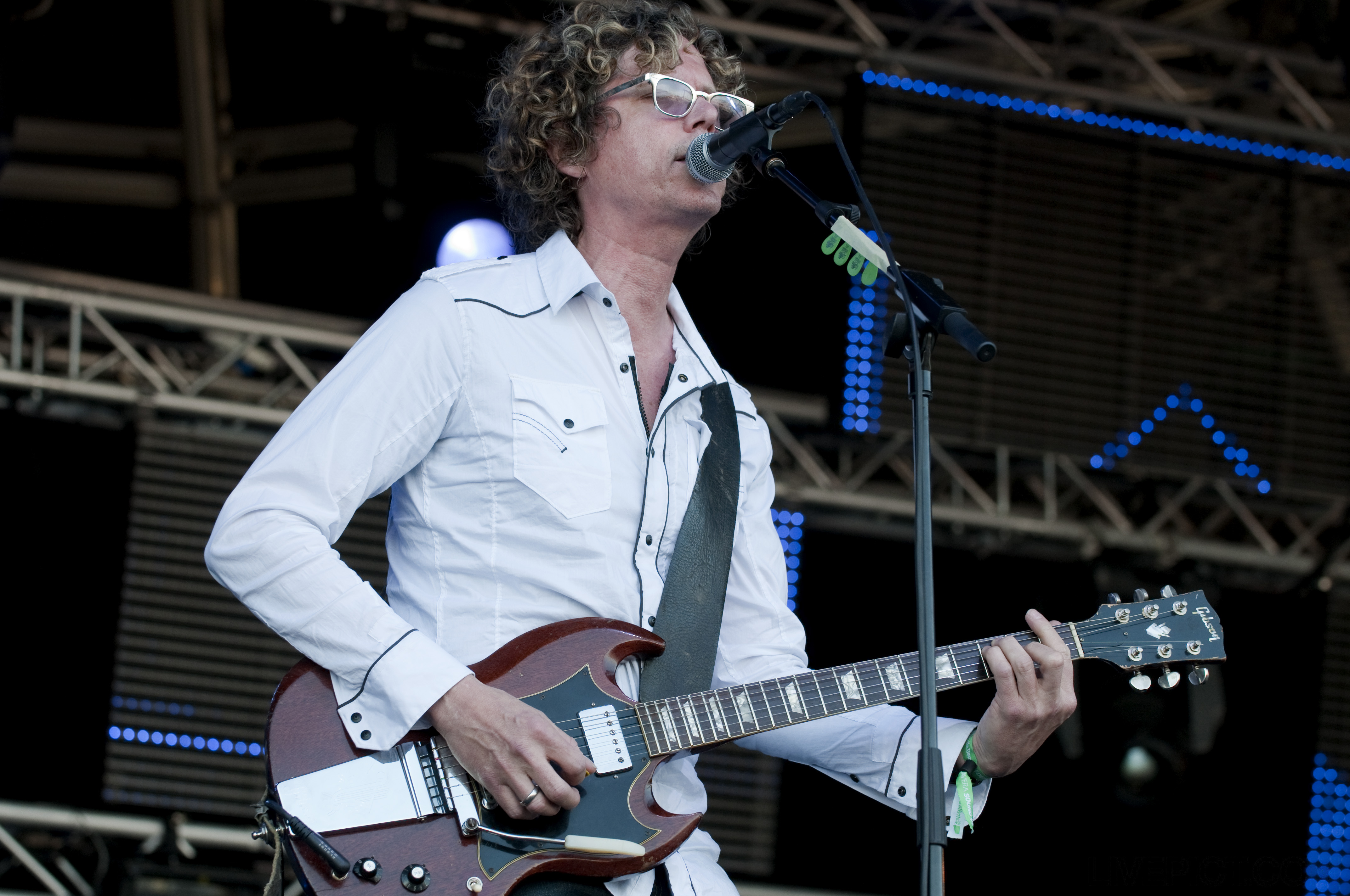 The Jayhawks